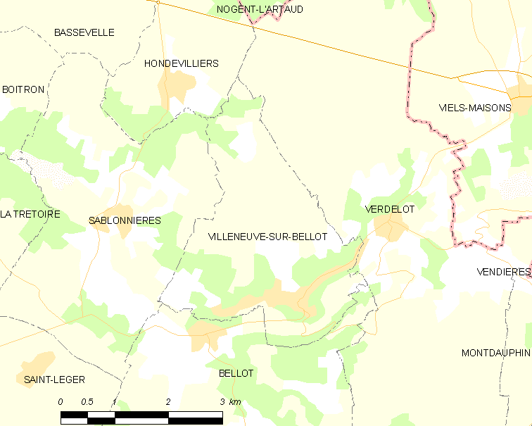 Map of French municipality Villeneuve-sur-Bellot